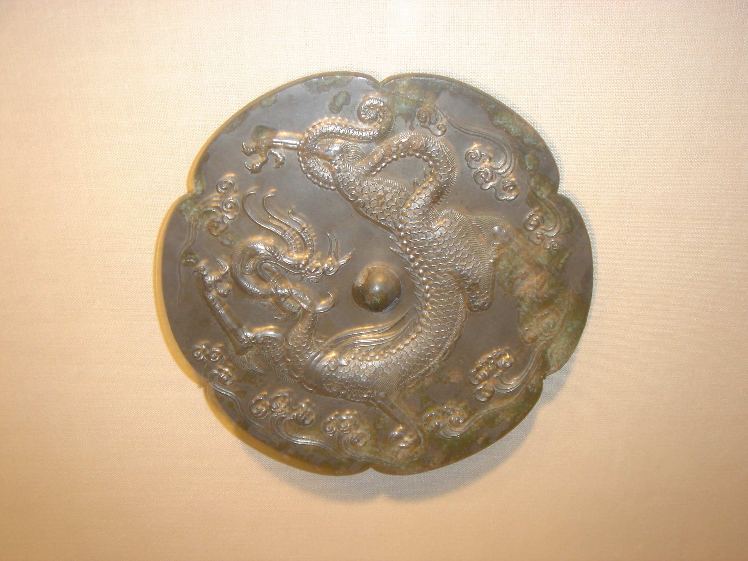 A Chinese six-lobed bronze mirror with a dragon decoration, from the Tang Dynasty, 8th century. From the Freer and Sackler Galleries of Washington D.C. Author: User:PericlesofAthens Date: August 3, 2007